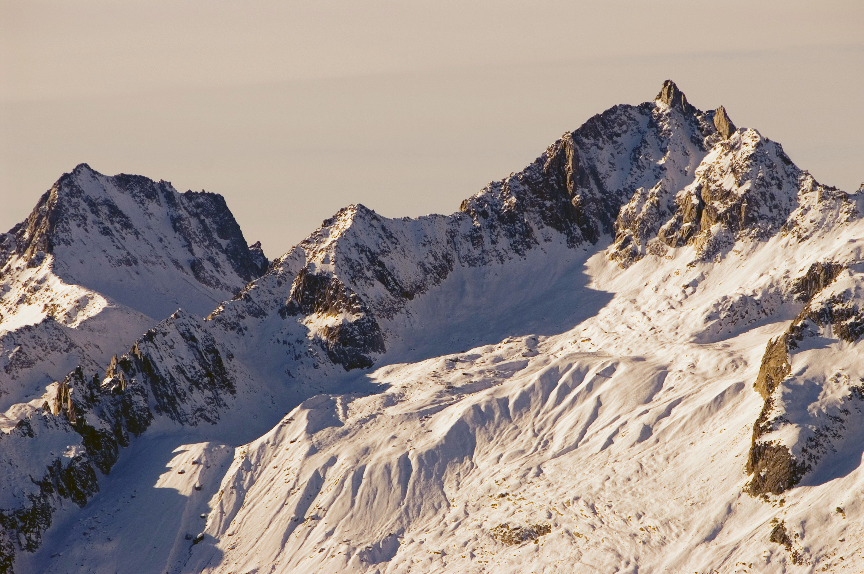 Pizzo Rotondo 3192 m - Lepontine Alps - Ticino - Switzerland